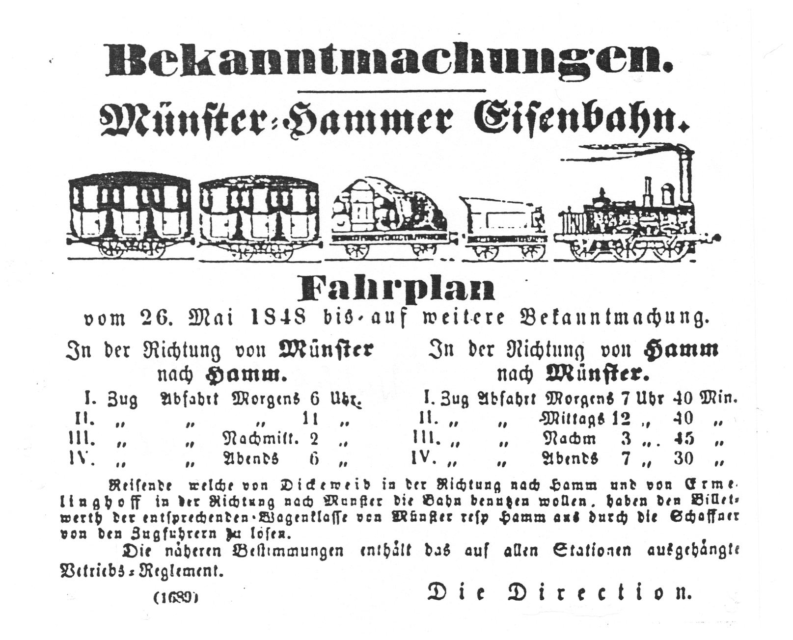 Timetable of Münster-Hammer-Railroad in 1848